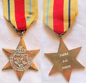 The Africa Star with the South African recipient's details impressed on the reverse, as was only done with Australian, Indian and South African awards. (Awarded to 314134 J.A. Jooste)